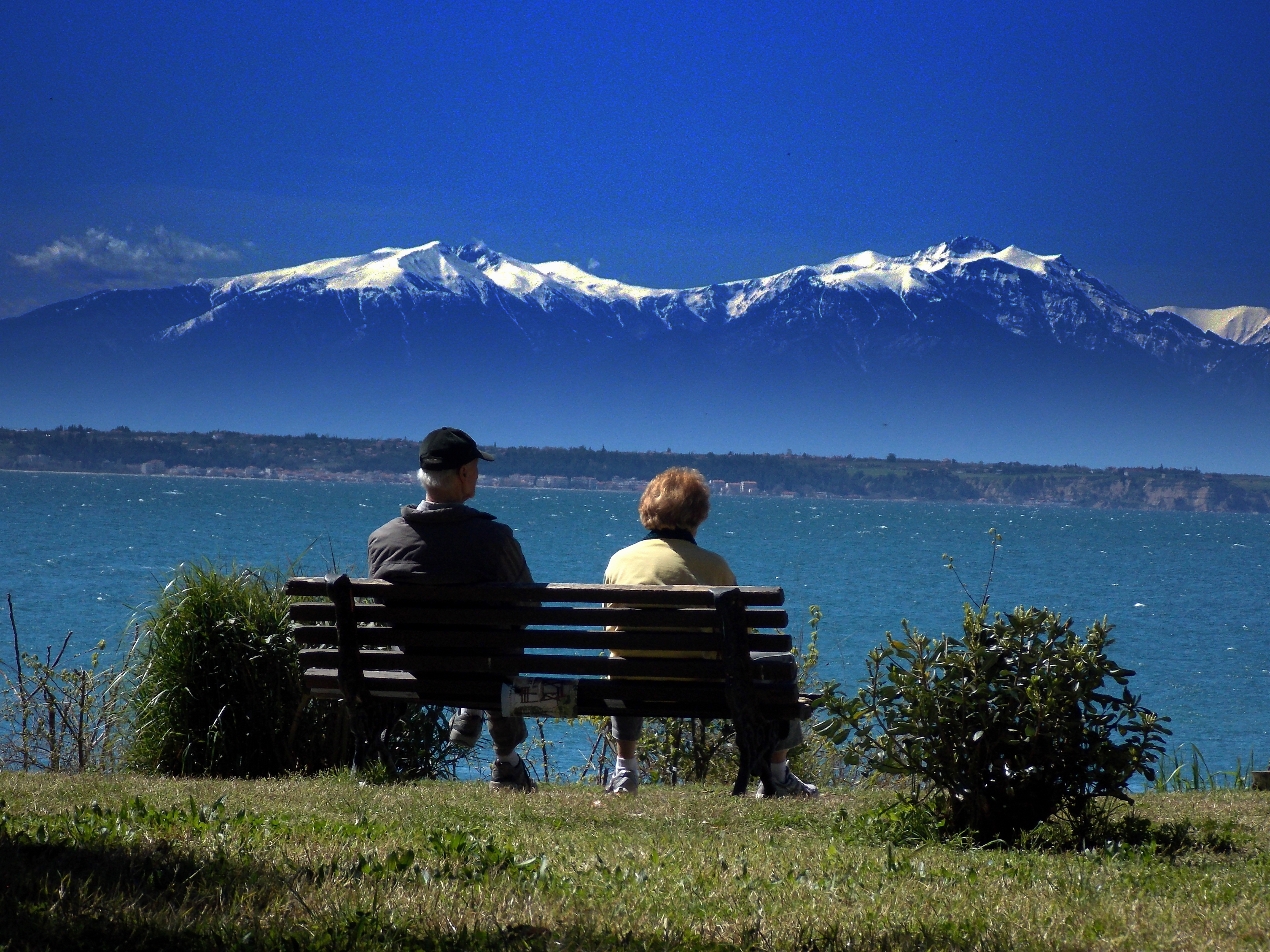 This is a photography of Natura 2000 protected area with ID GR1250001